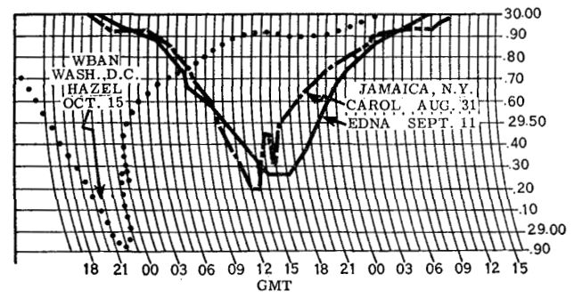 Barograph traces showing secondary falls after passage of main center. Dates after name of hurricane denote date of lowest pressure.